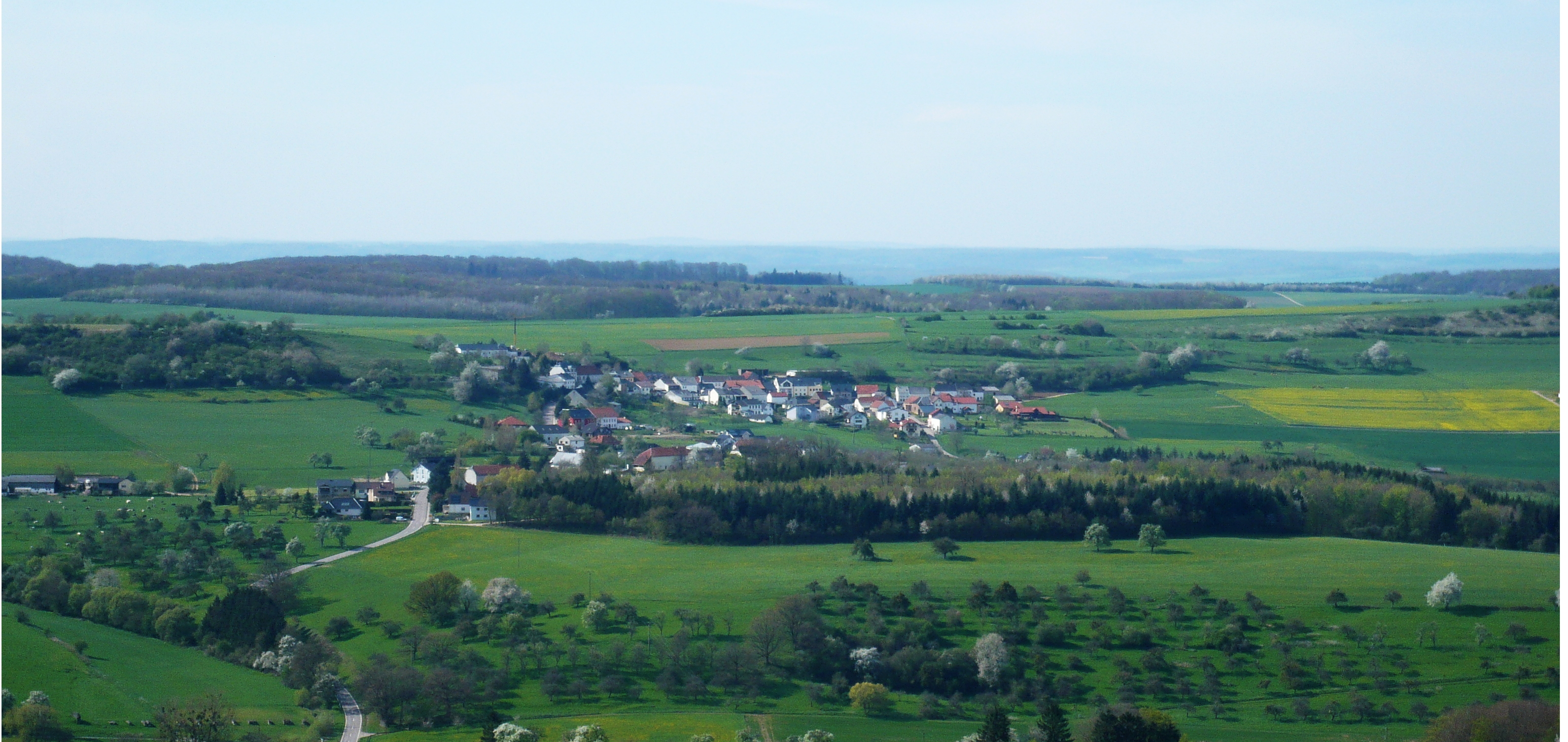 Local community fish (Saargau) - recorded by the host tower (Saarburg / Kahren)